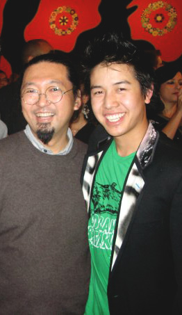 Photograph of Artist Takashi Murakami on left and Artist Alan Chin on right at The Geffen Contemporary at MOCA (Museum of Contemporary Art) in Los Angeles, Ca.